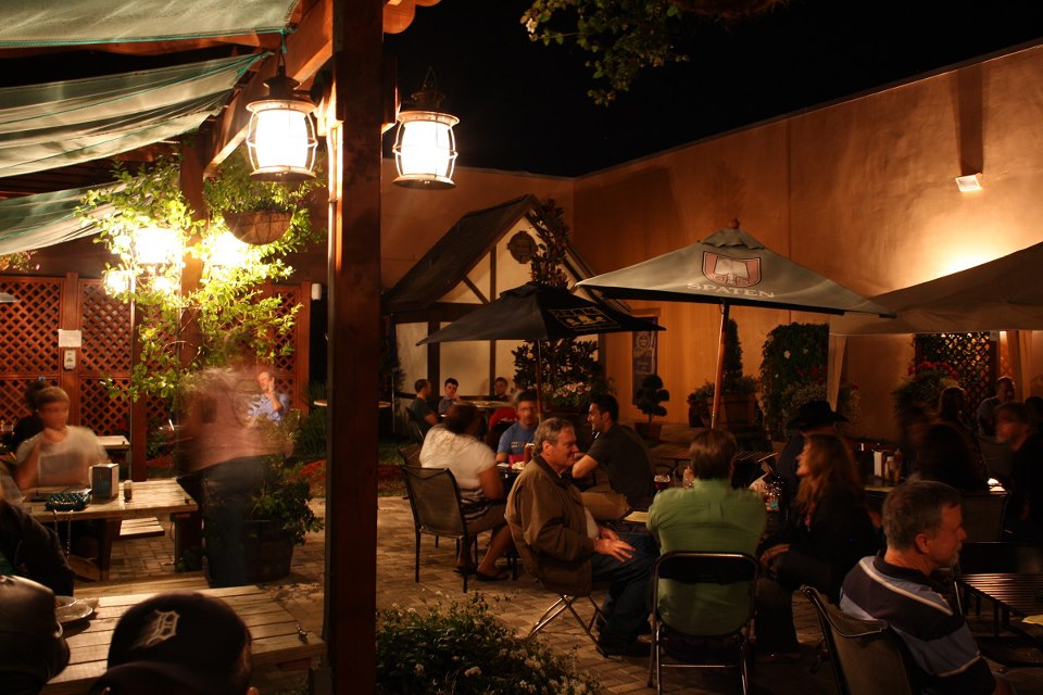 Picture of the Biergarten at Coaster's Pub in Melbourne/Indian Harbour Beach, FL. Posted to Wikipedia at their request on their Facebook page (